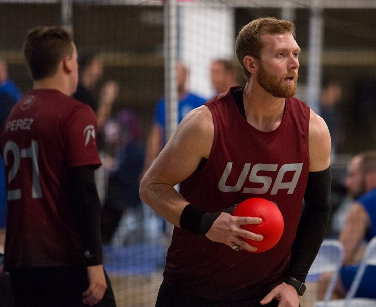 Dodgeball